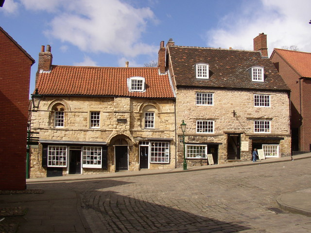 The Jews House Steep Street Lincoln A very old building